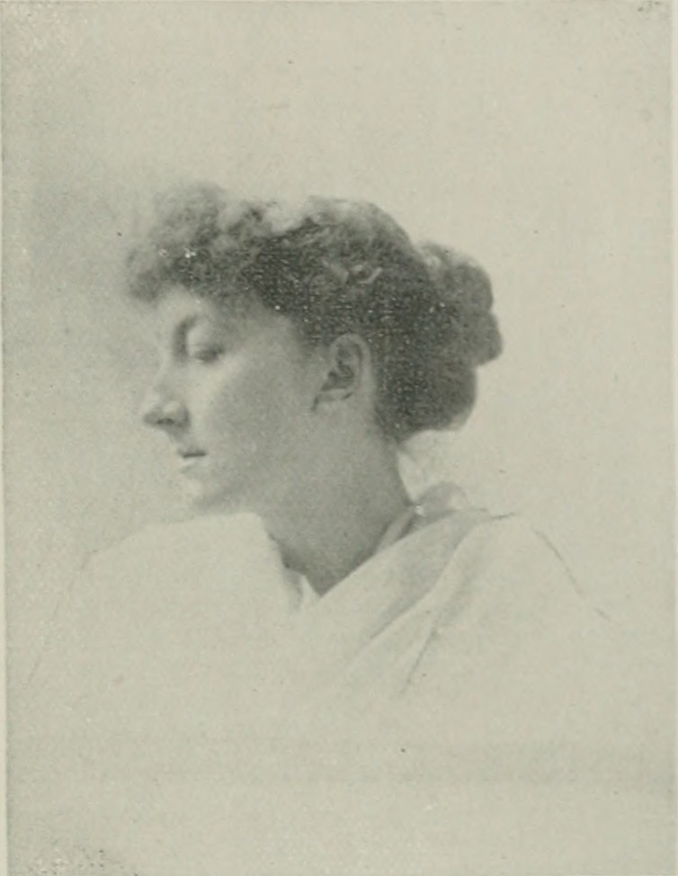 image from File:A woman of the century.djvu published 1893